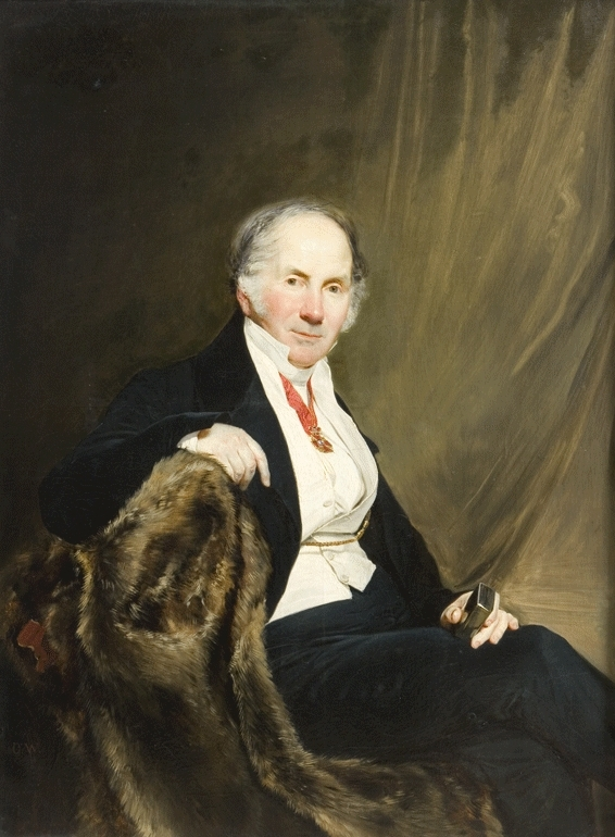 The portrait of Alexander Sauerweid (1782-1844)